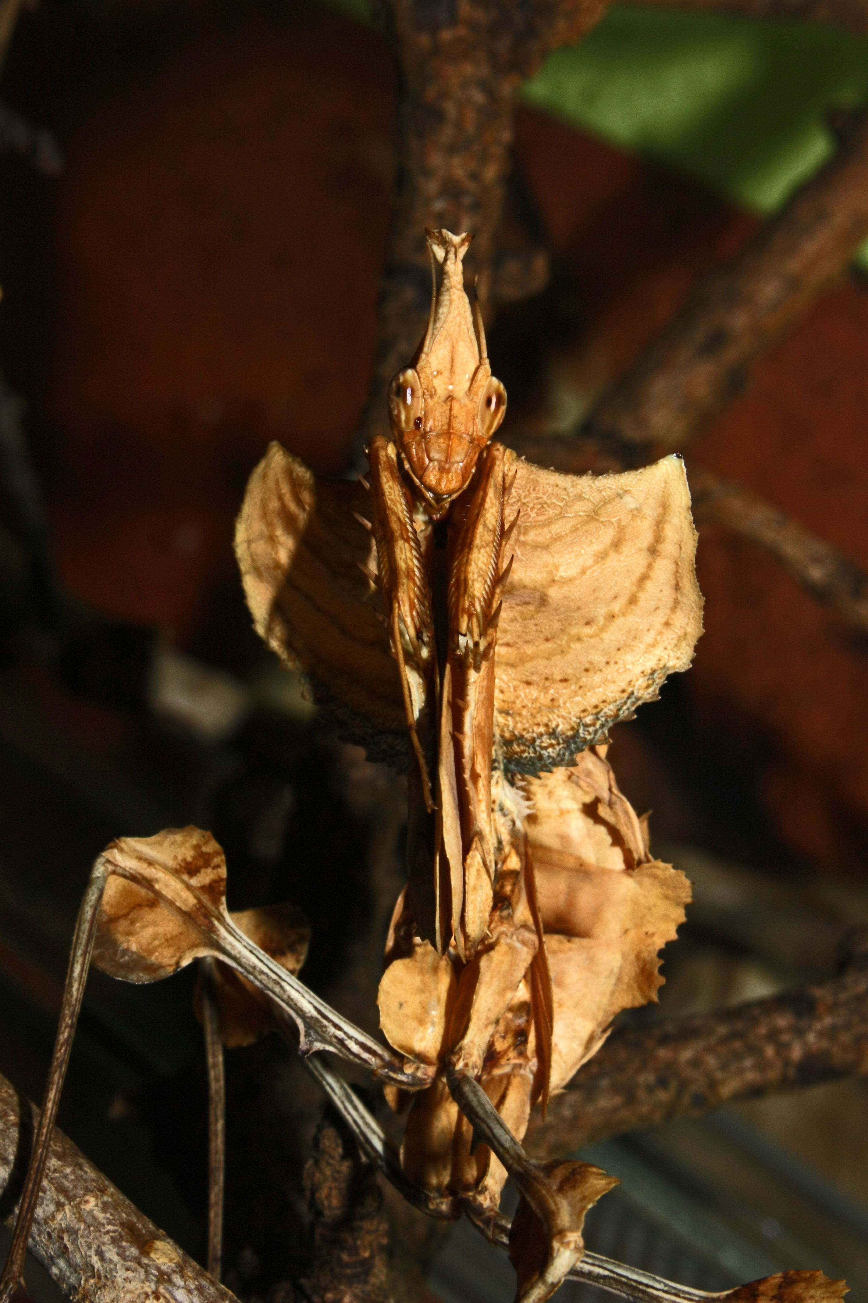 subadult female of devil's flower mantis (Idolomantis diabolica)